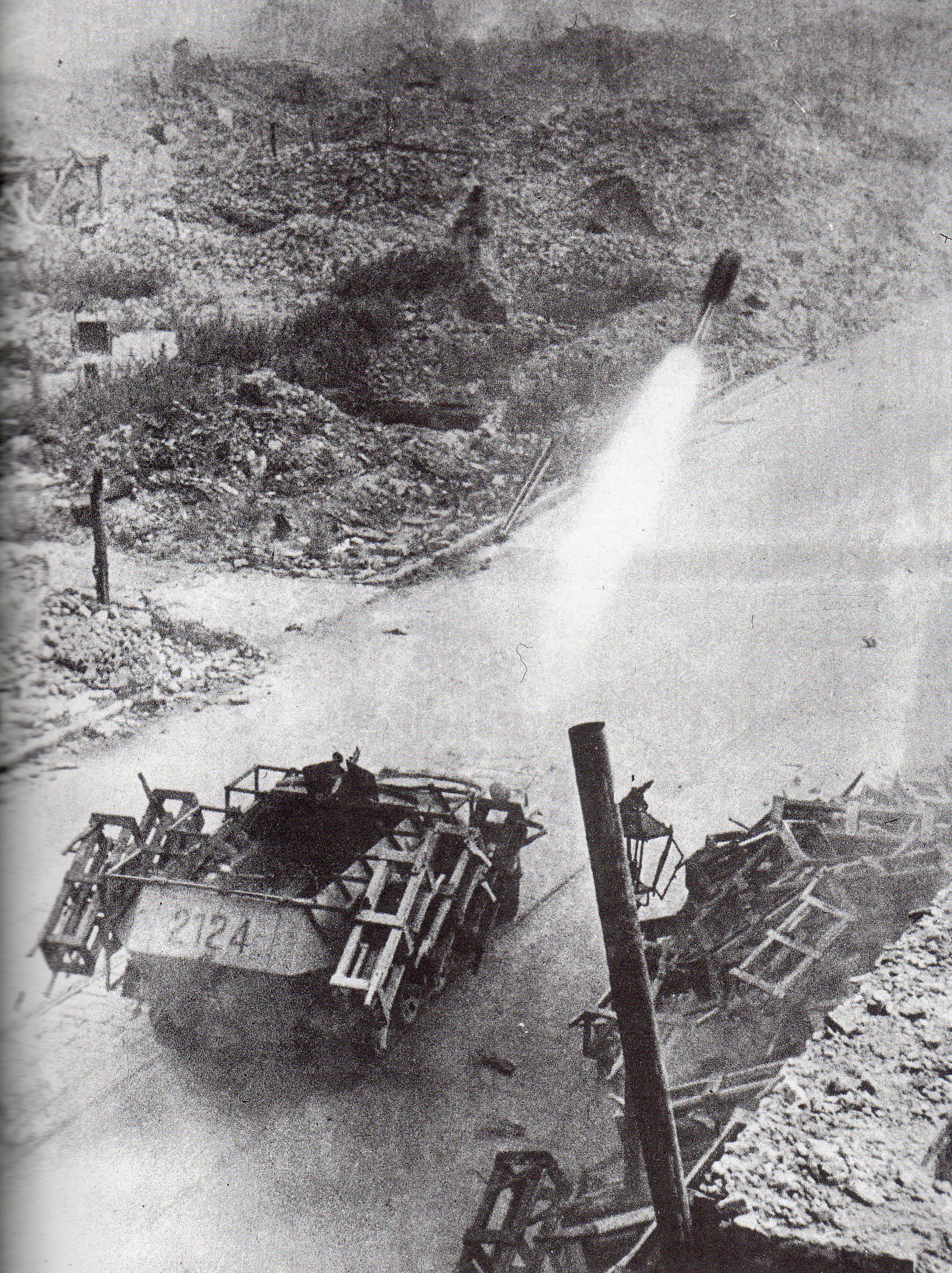 Germans fire rocket shells against Polish positions.